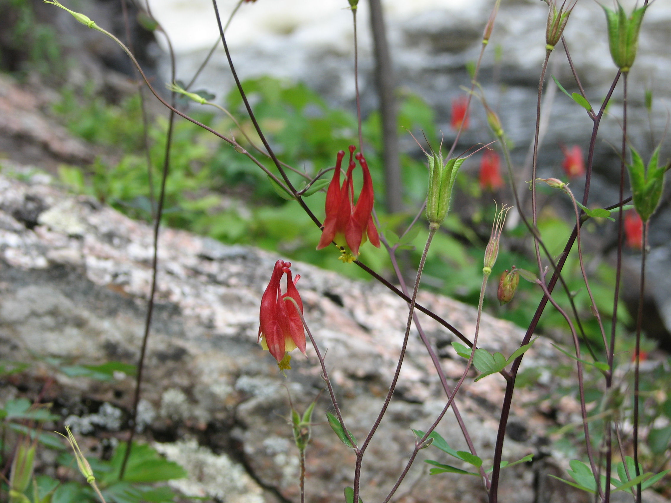 Canadian Columbine (Aquilegia canadensis) along shore of Magnetawan River, Ontario